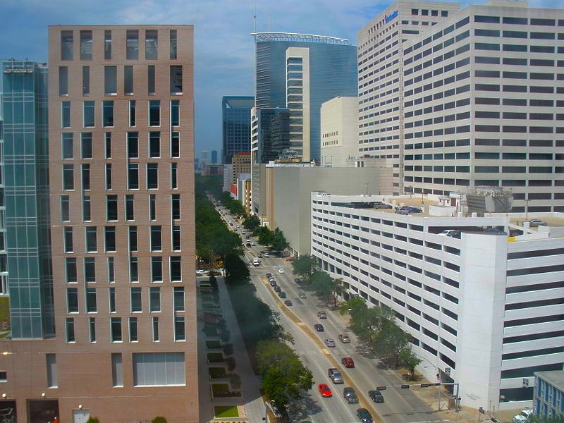 Main Street within the Texas Medical Center, viewed from the Baylor College of Medicine (view towards Downtown Houston)